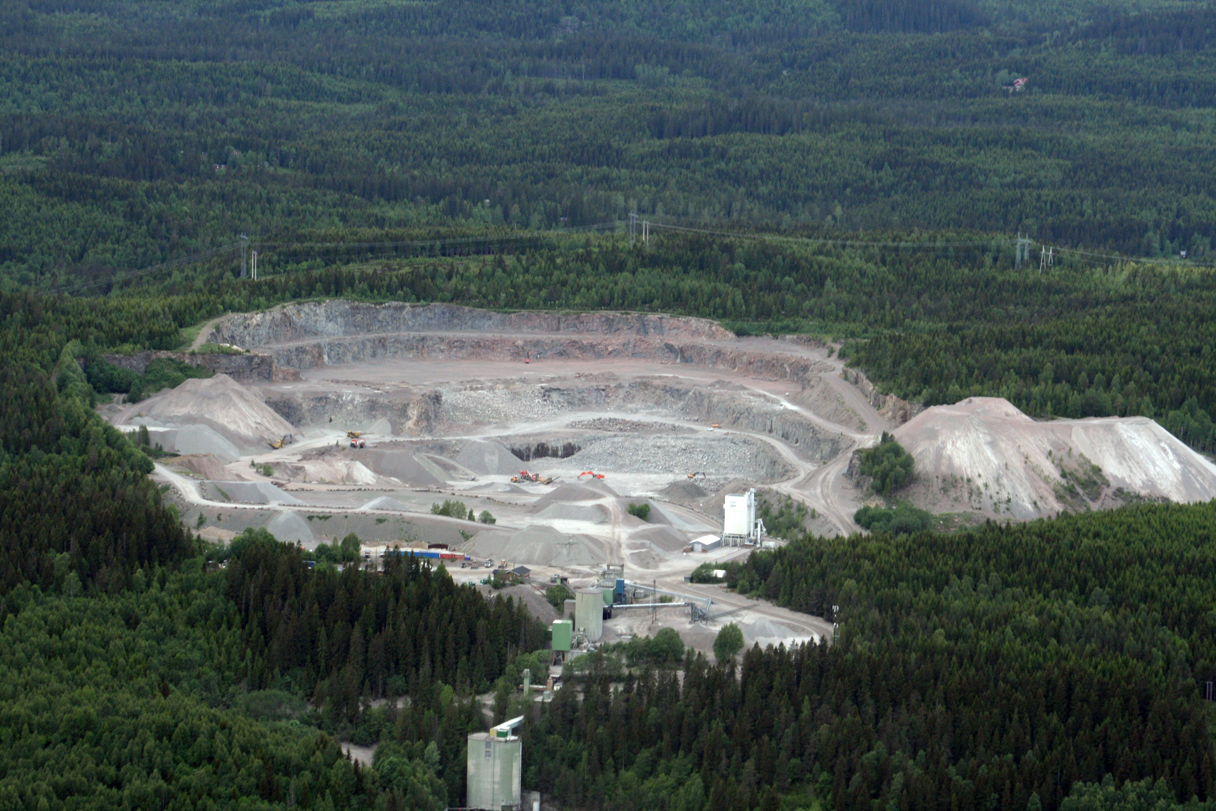 Aerial photograph from June 14th, 2015.